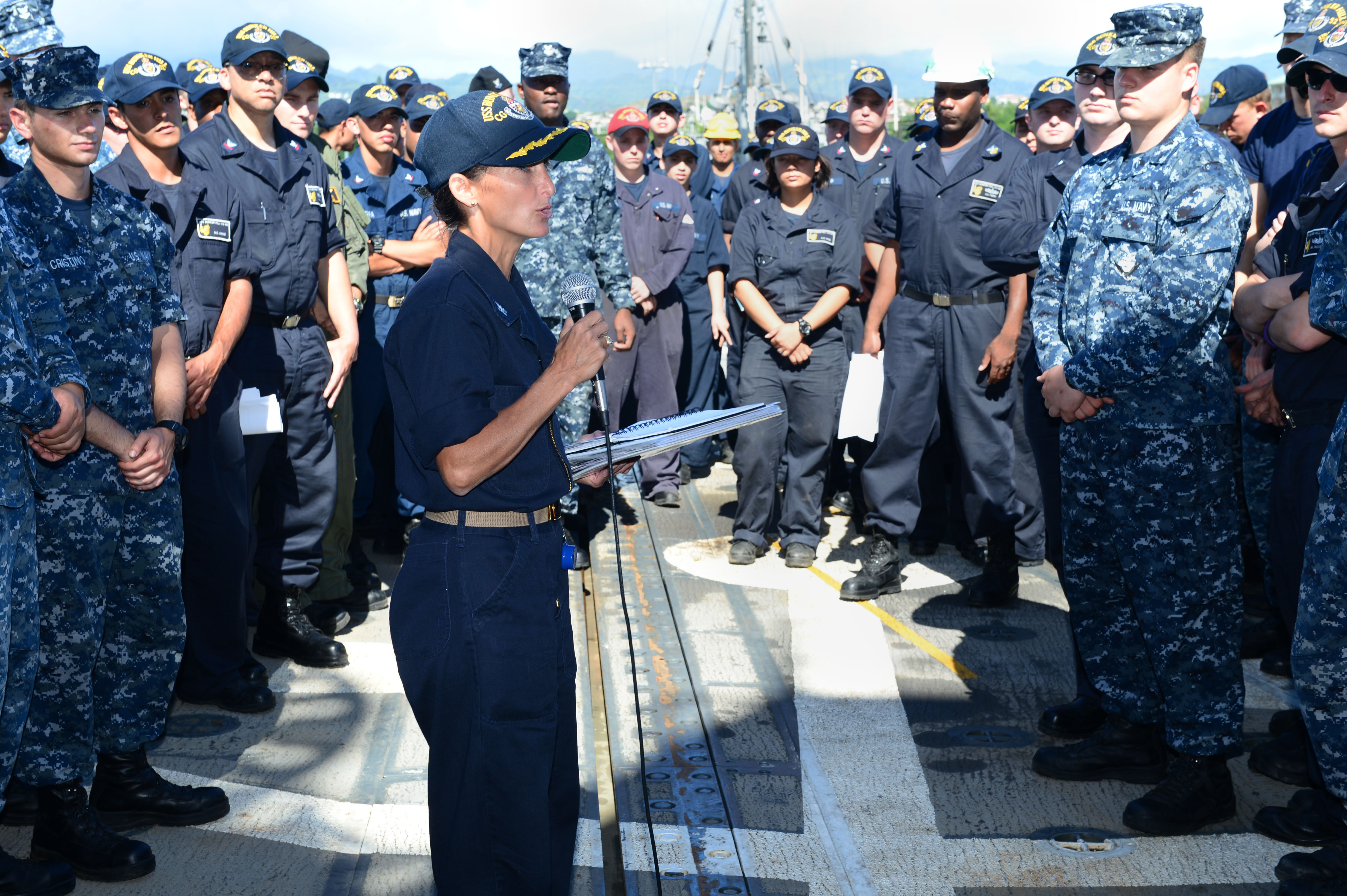 Capt. Yvette M. Davids, commanding officer of guided-missile cruiser USS Bunker Hill (CG 52), speaks to her crew before liberty call in Pearl Harbor, Hawaii. Bunker Hill is underway as part of the Carl Vinson Carrier Strike Group and on the ship’s Western Pacific Deployment 2014. (U.S. Navy photo by Mass Communication Specialist 1st Class LaTunya Howard/Released)